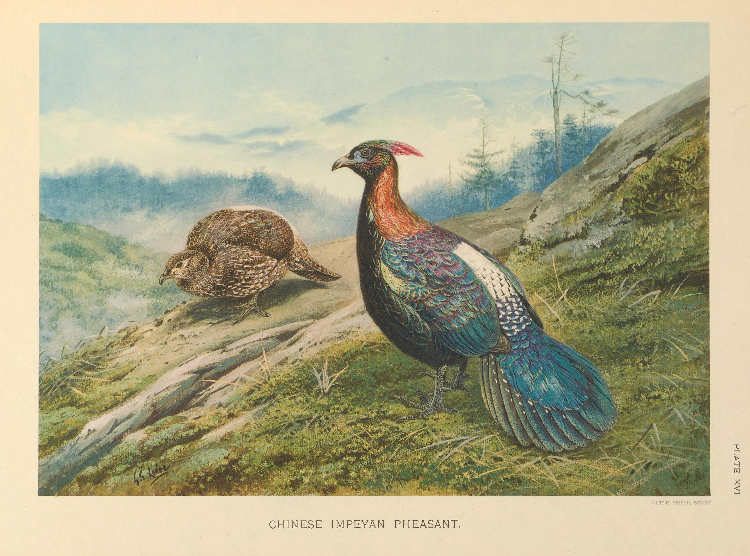 Chinese Impeyan Pheasant (Lophophorus lhuysii)